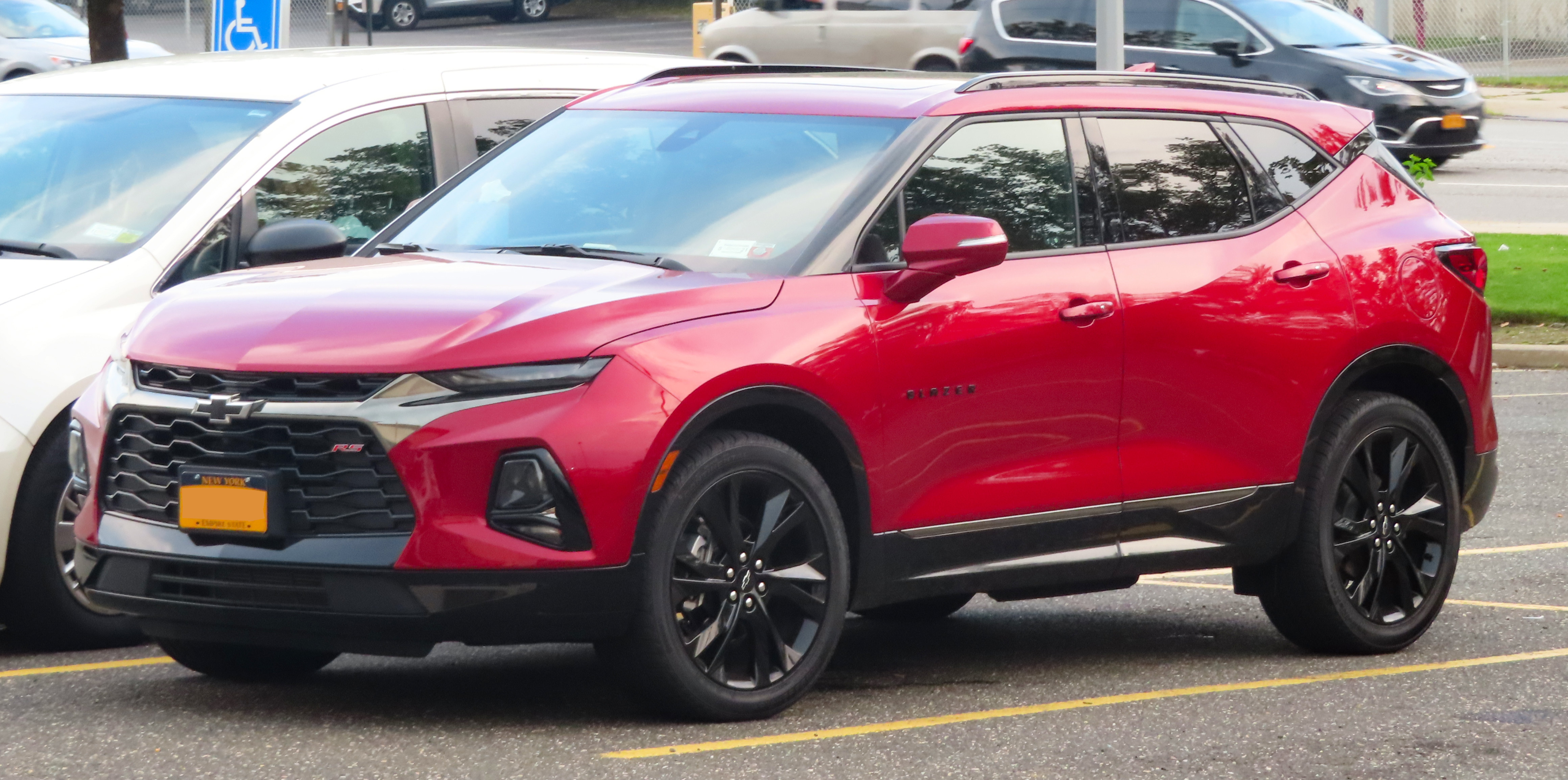 A 2019 Chevrolet Blazer RS photographed in College Point, Queens, New York, USA